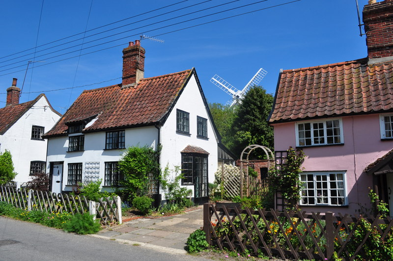 Holton Windmill, near to Holton, Suffolk, Great Britain. Although Wikipedia says publicly accessible it seems this is the best view of the grade II listed post mill.